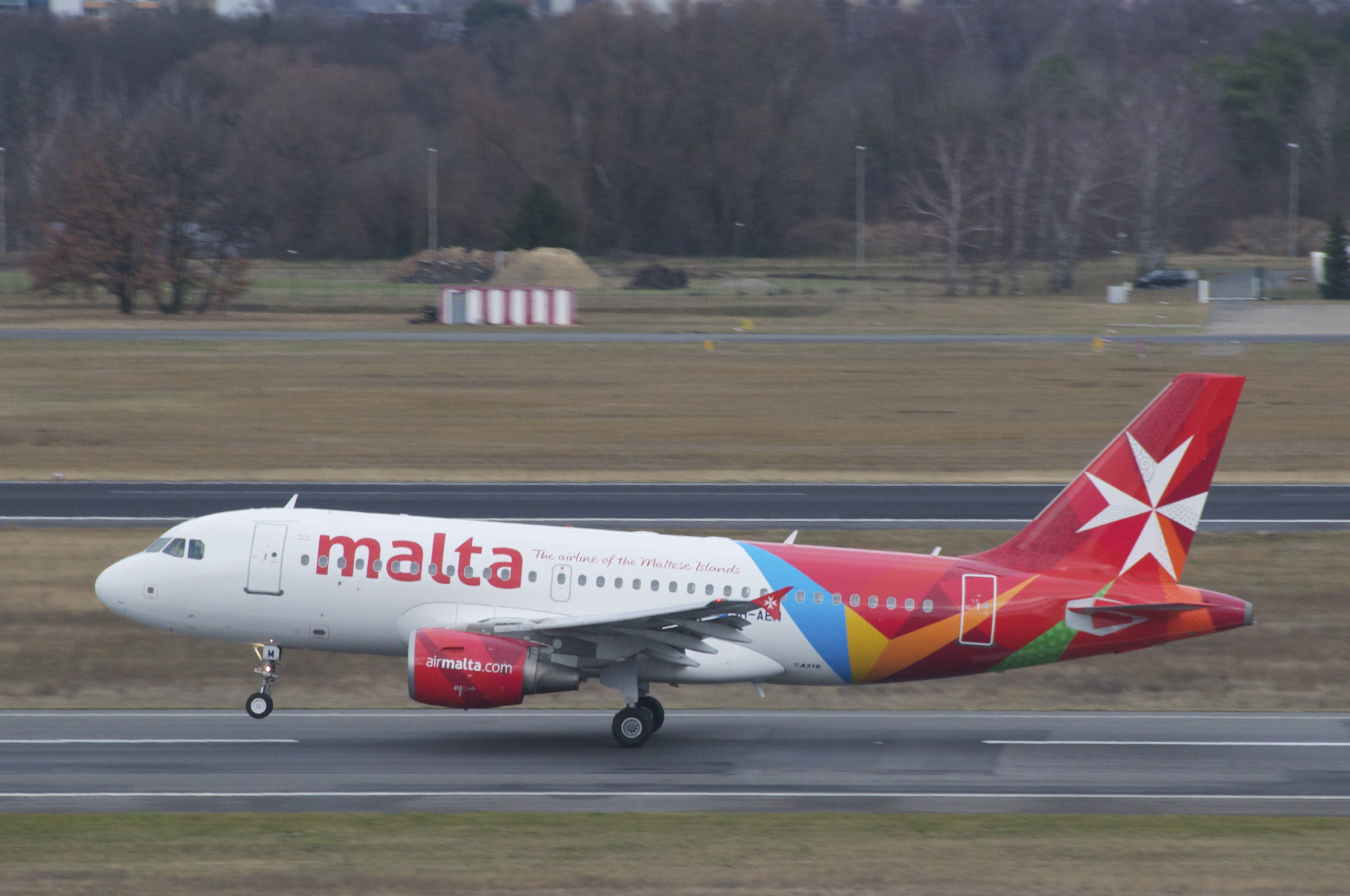 KM's new colours - seen on this A319 taking off at Tegel...